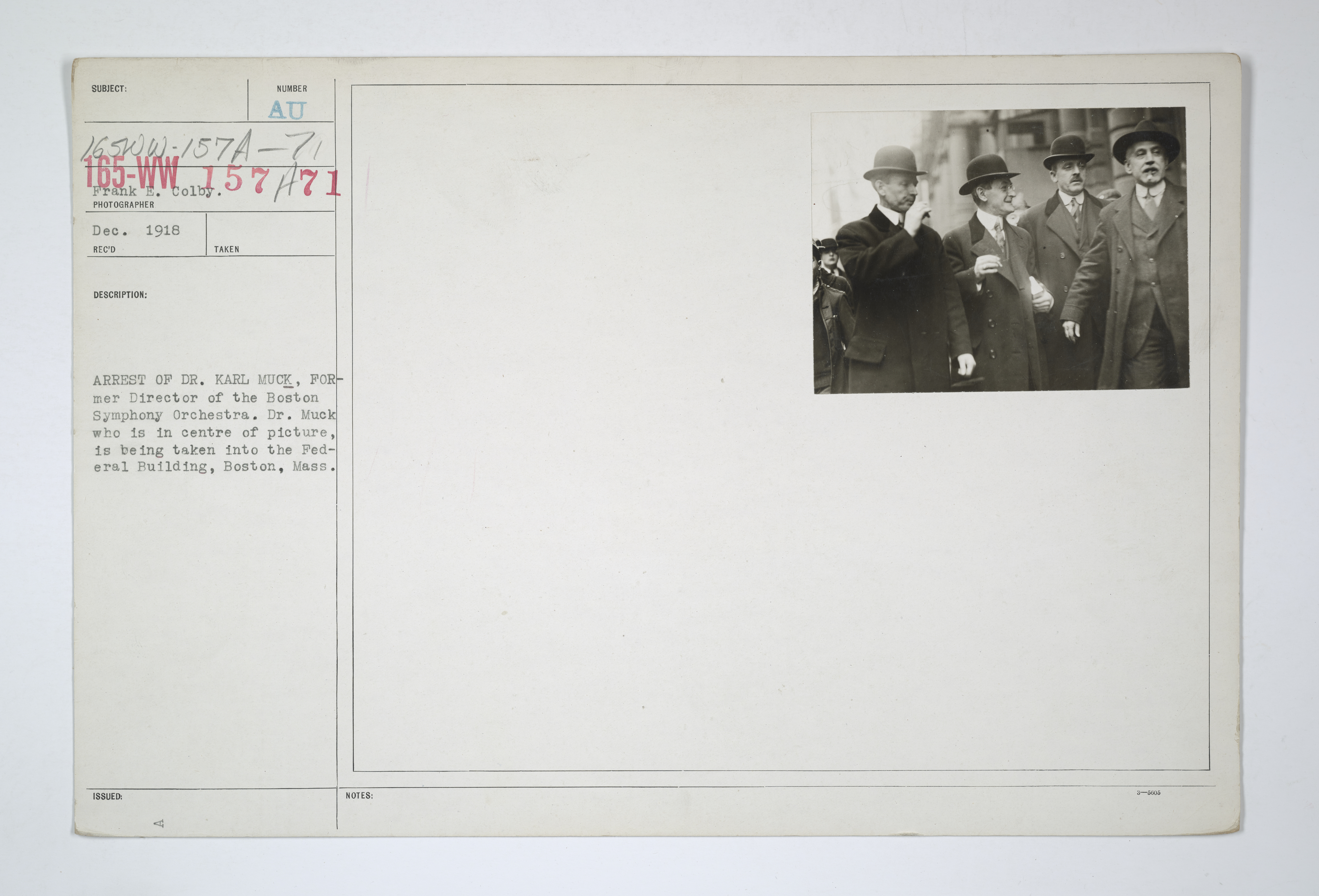 Scope and content: Photographer: Frank E. Colby